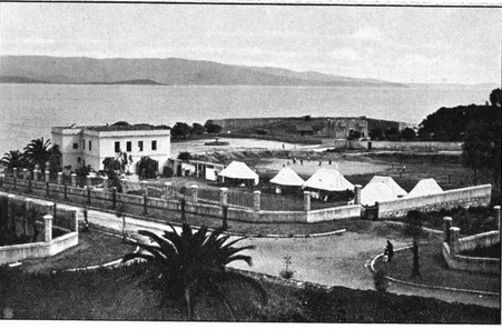 Scottish Women's Hospital - Corsica - Villa Miot, Ajaccio